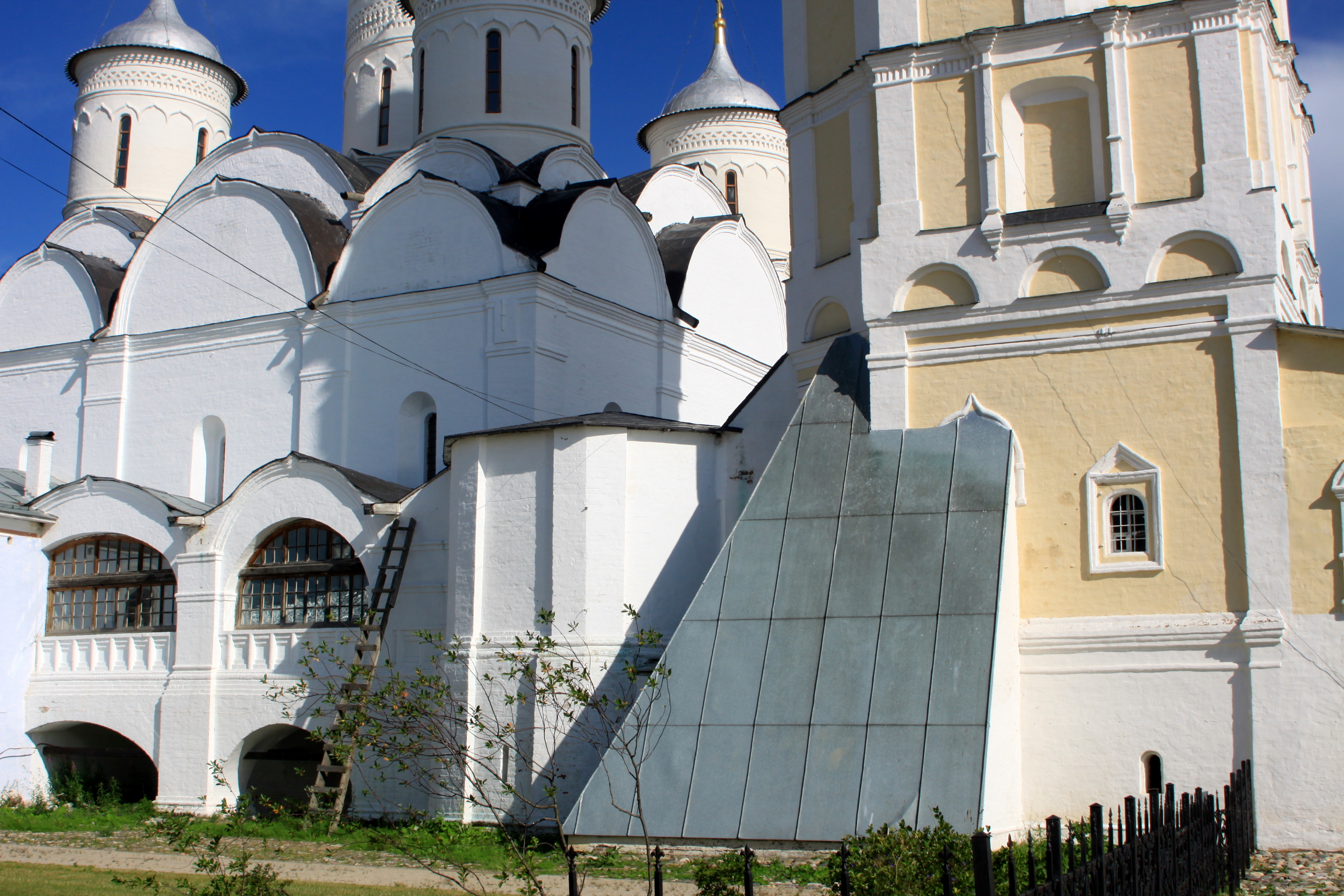 Remnants_of_the_former_belfry_church_in_Spaso-Prilutsky_Monastery